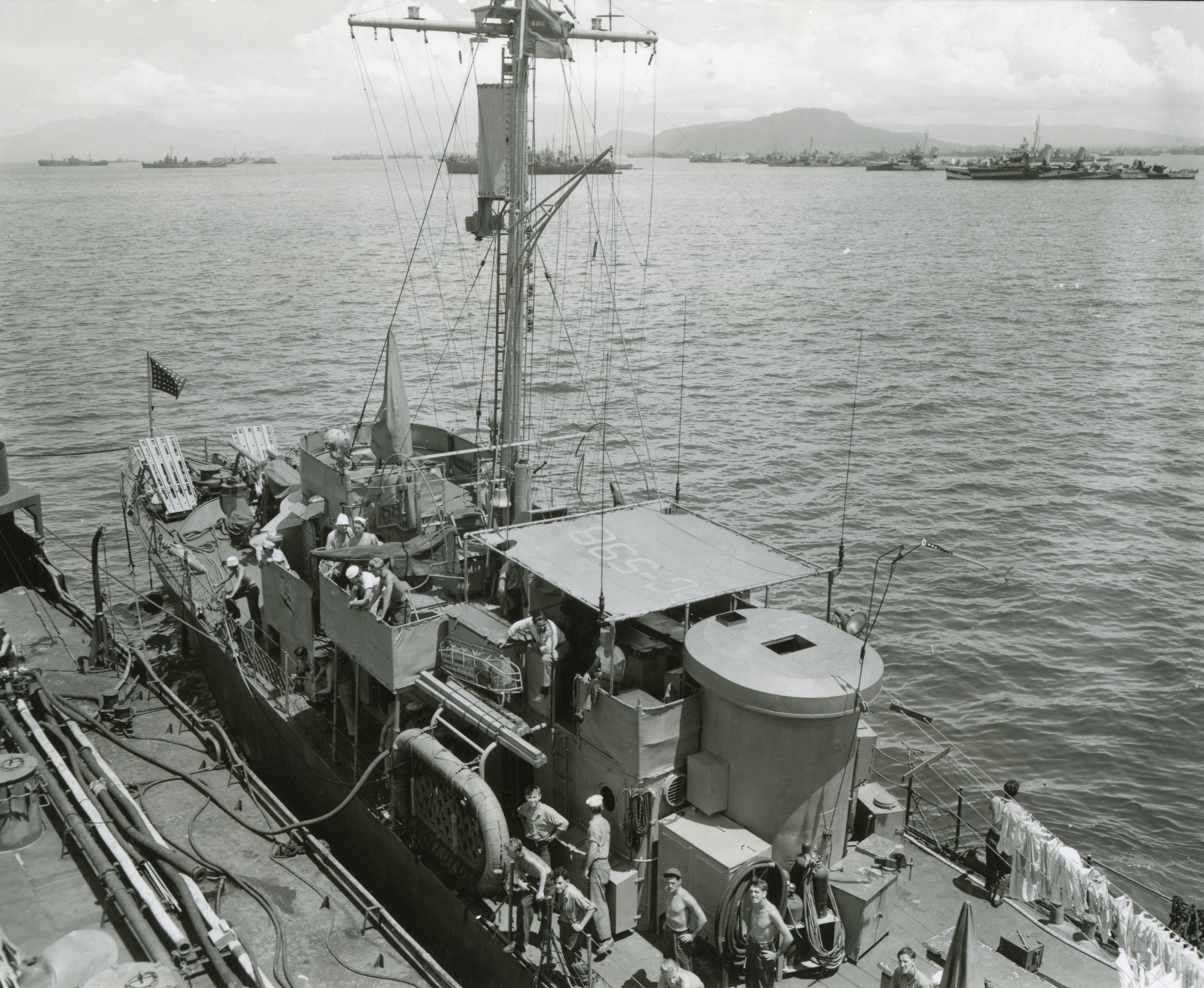 Subchaser USS PC-598 in Humboldt Bay, Hollandia, New Guinea - October, 1944